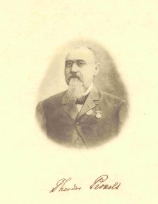 Theodor Peckolt, German pharmacist and chemist.